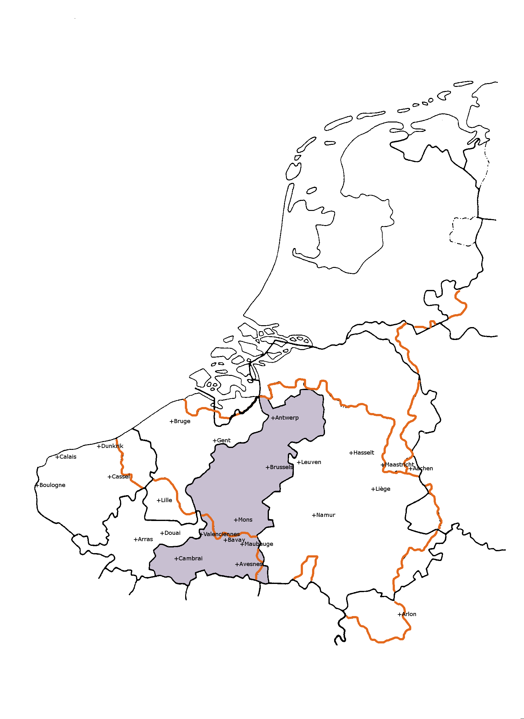 This is a map of the old catholic dioceses around Belgium